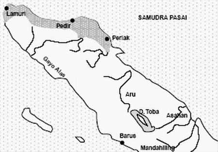 Samudra Pasai